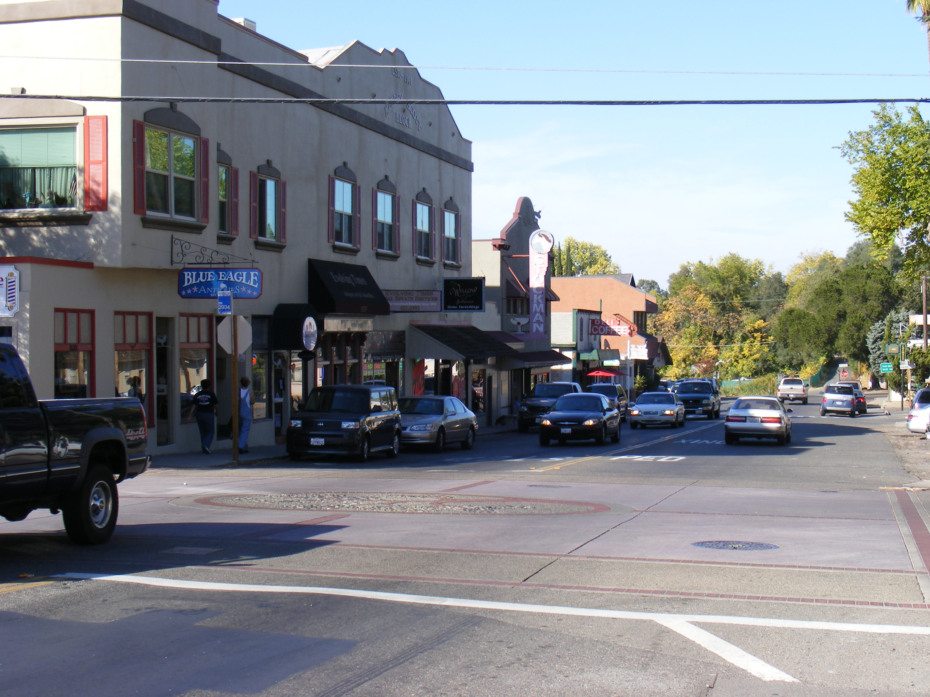 Downtown Fair Oaks, in Sacramento County, California.